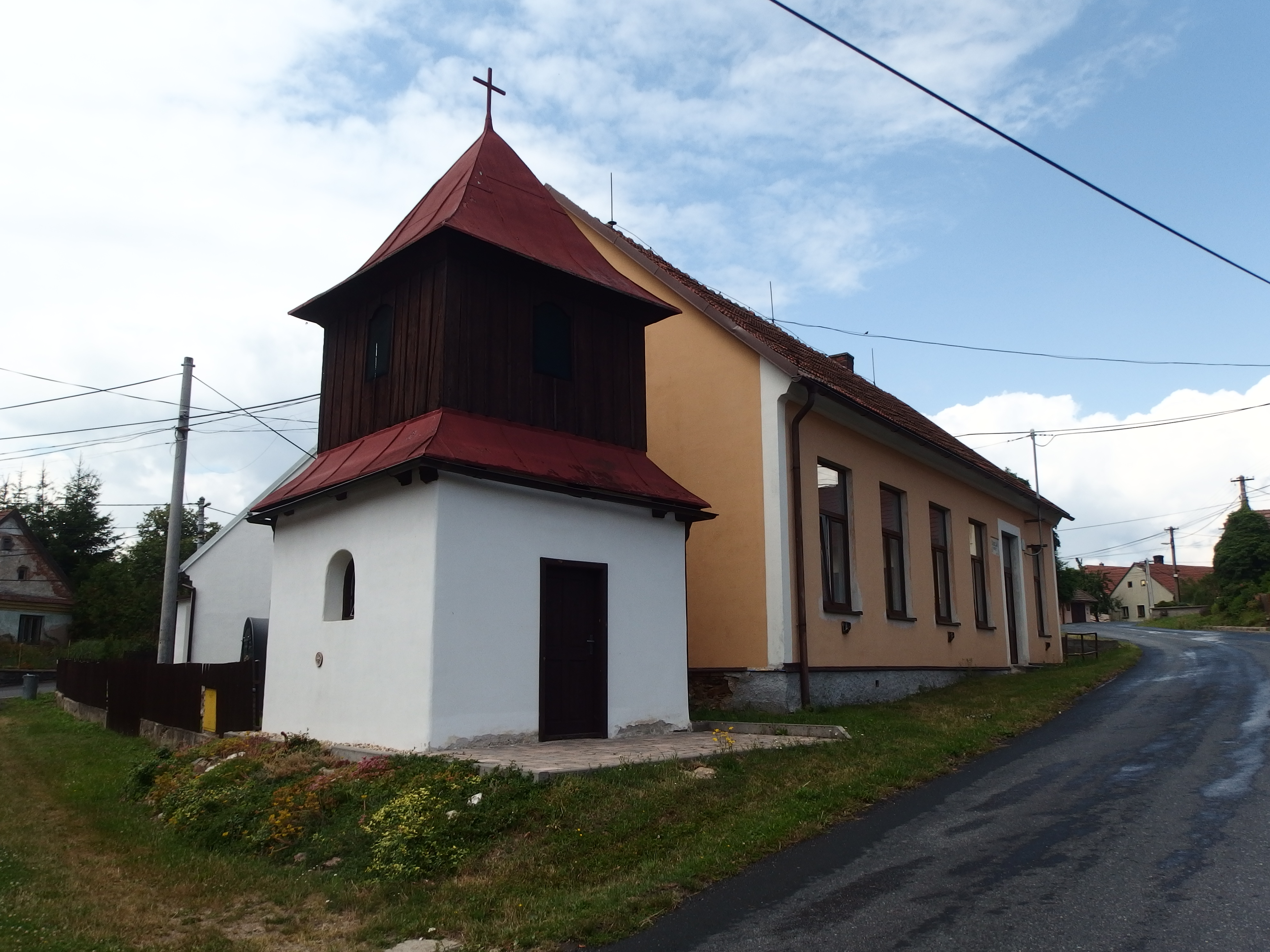 Rožná, Žďár nad Sázavou District, Czechia, part Zlatkov.